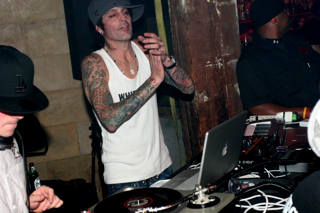 Tommy Lee's Halloween Party